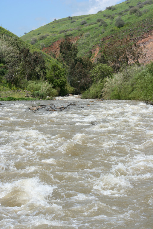 Jordan River